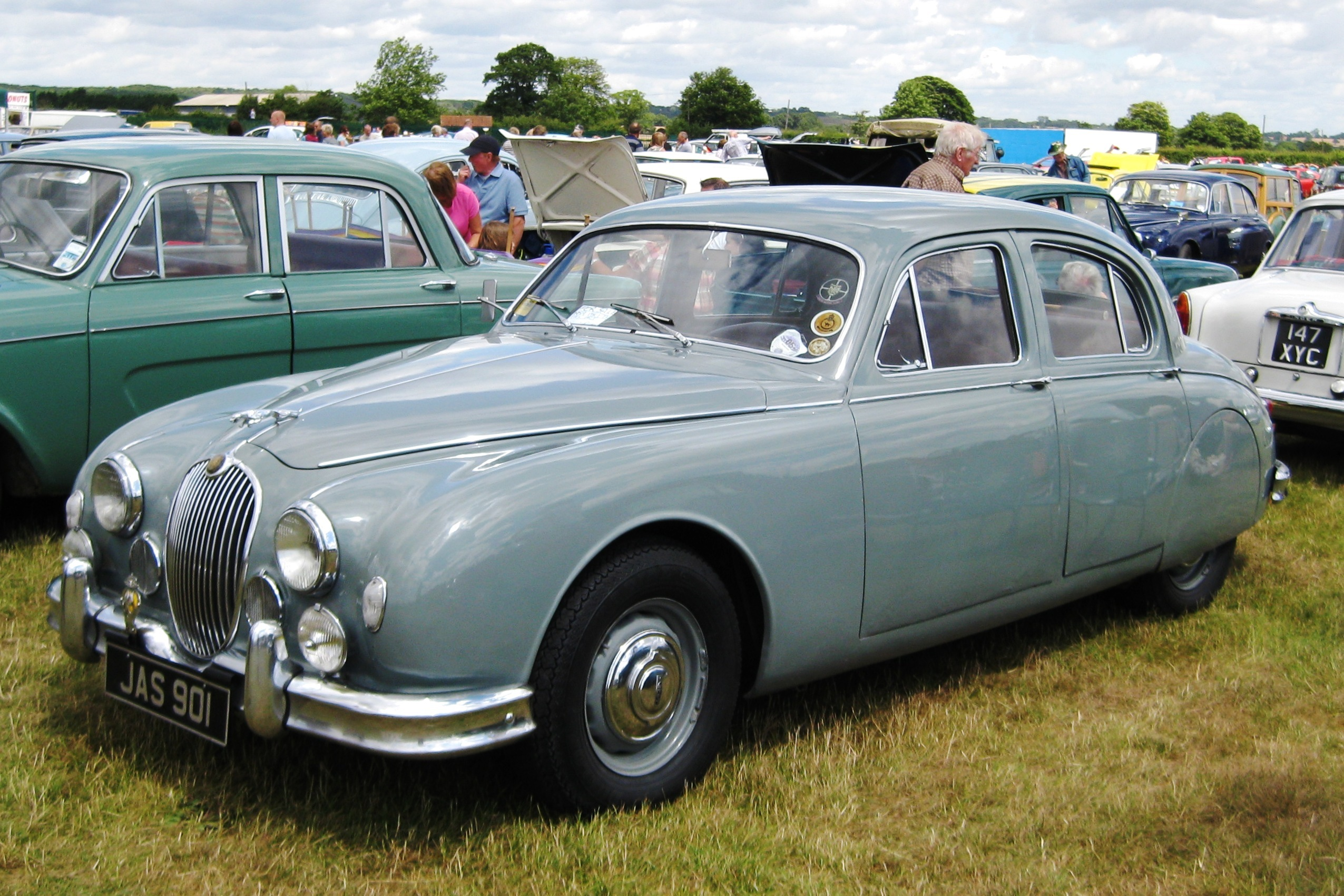 Jaguar 2.4. The car retrospectively became known as the Jaguar Mark I after its successor hit the market with the name Jaguar Mark II.